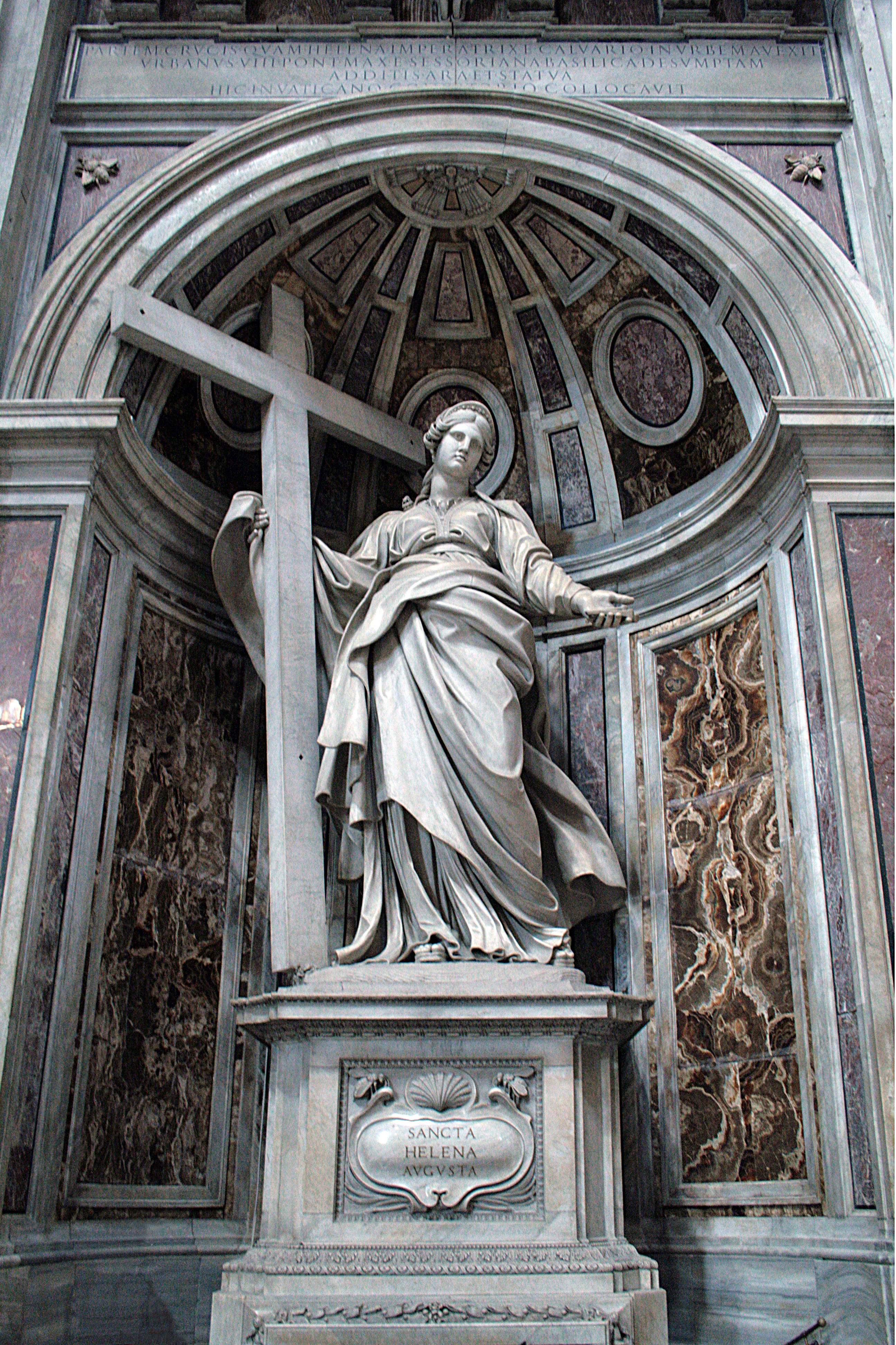 Statue of Saint Helen, St. Peter's Basilica, Vatican - Work of Andrea Bolgi (1605–1656).